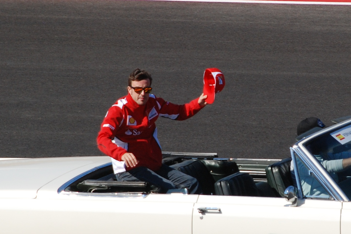 Fernando Alonso, United States Grand Prix, Austin 2012